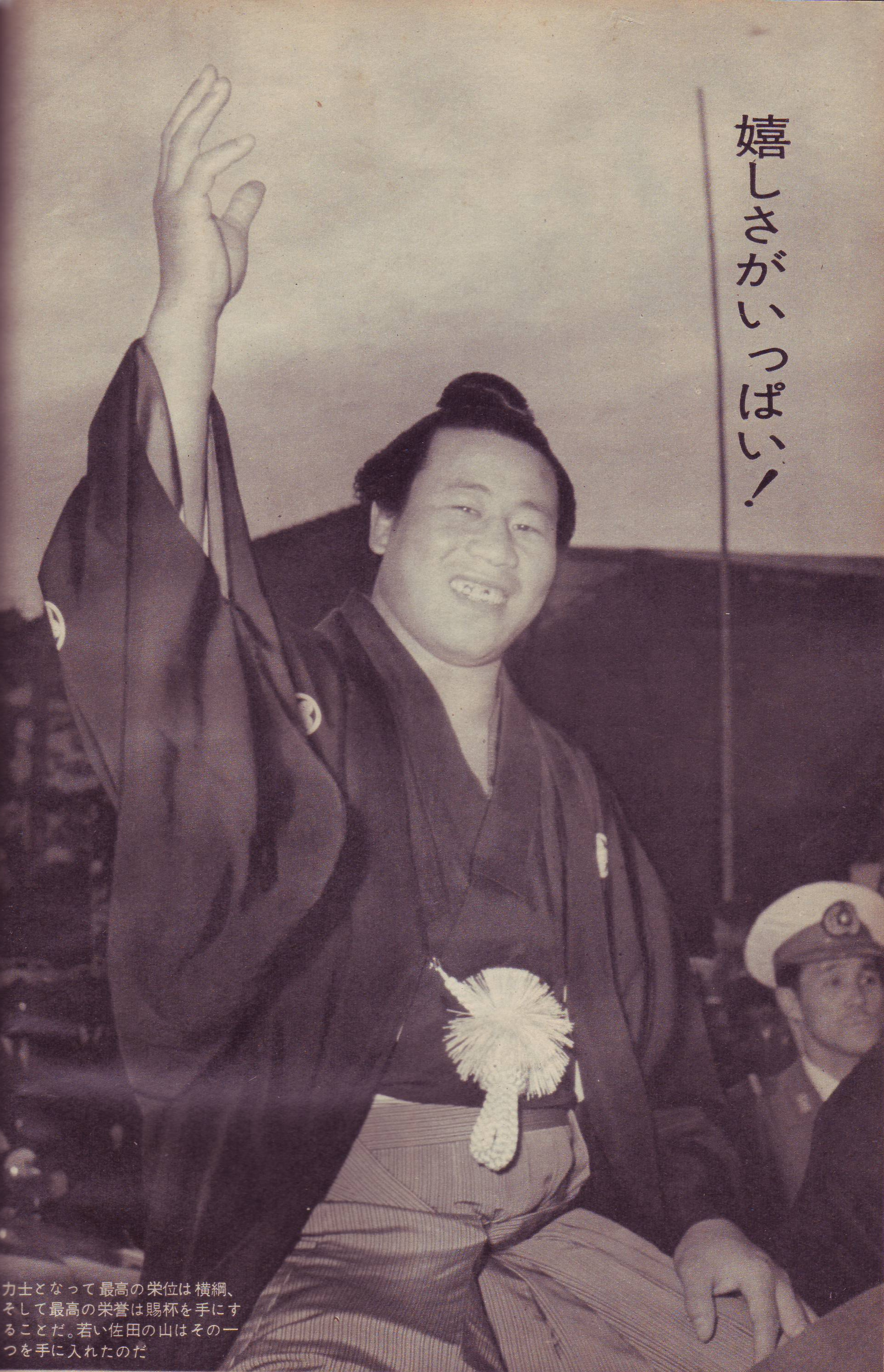 Sadanoyama Shinmatsu (taken in 1961).